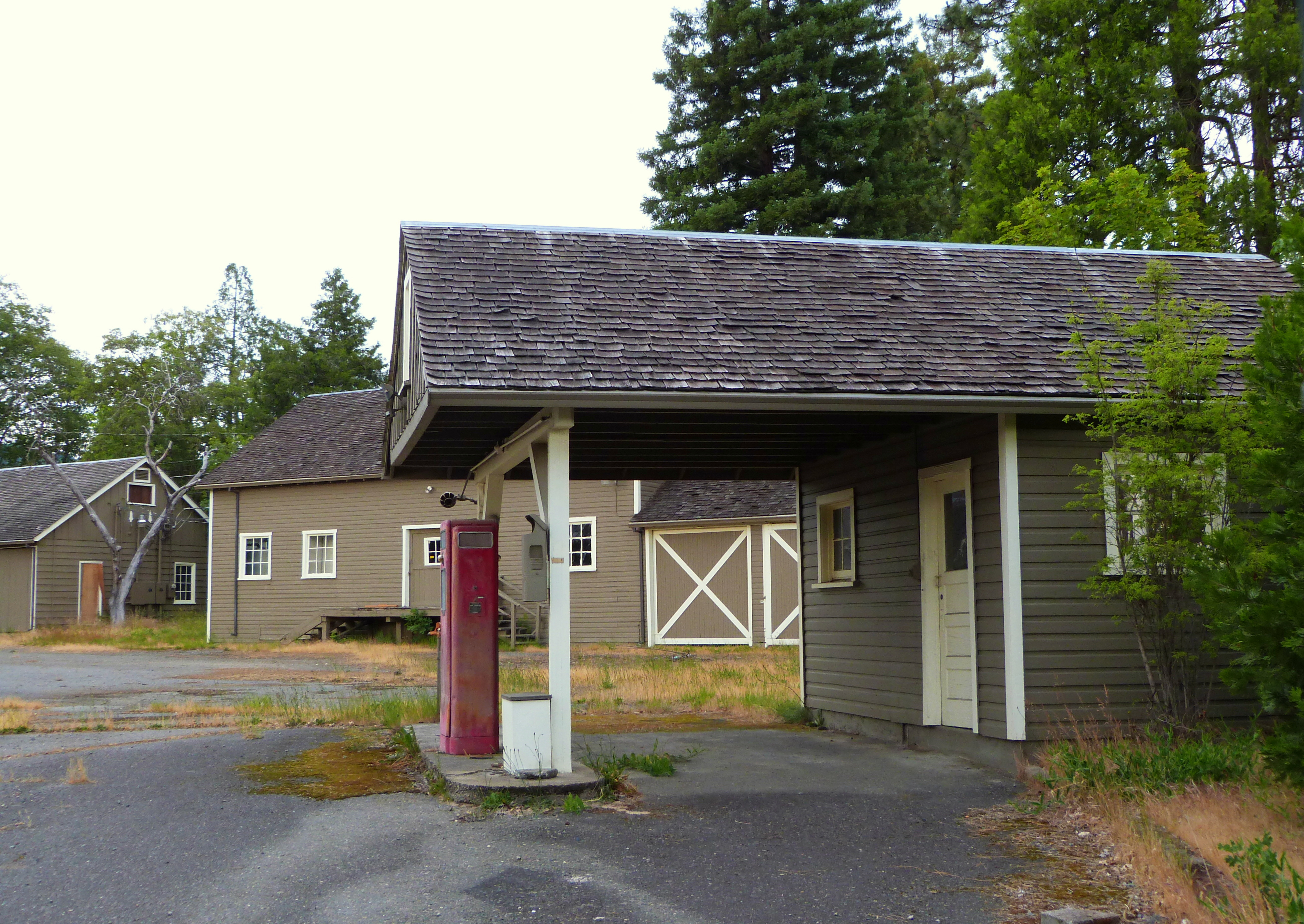 The historic Grants Pass Supervisor's Warehouse compound, located at 1012 Southwest L Street in Grants Pass, Oregon, United States, is listed on the US National Register of Historic Places. Pictured here is the Gas House # 2501 (built 1933).